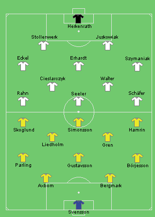 Formations of the FIFA Worldcup Semifinal 1958, Sweden vs. Germany (3–1)